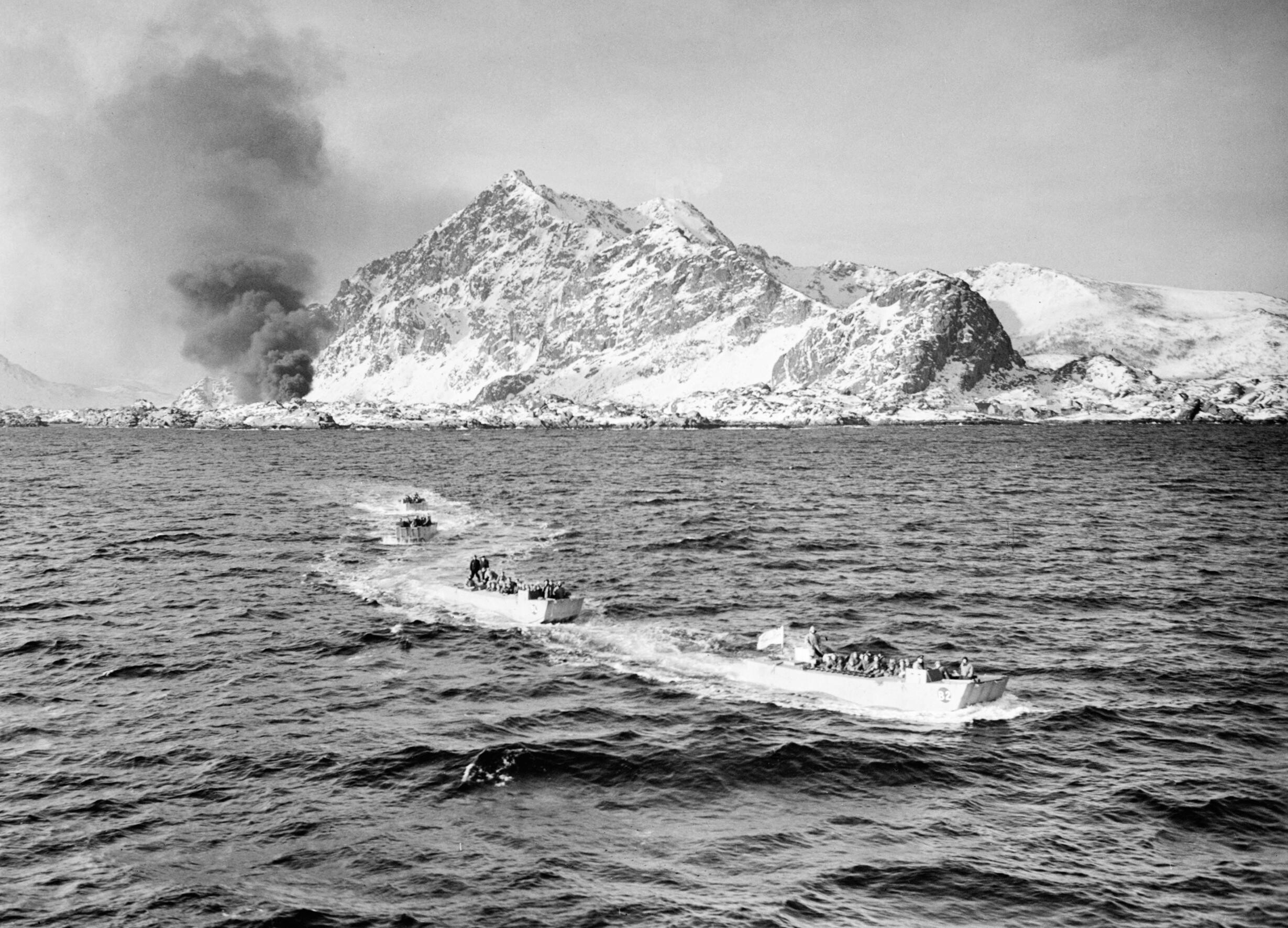 Troops returning from shore in landing craft after raiding the Lofoten islands, Norway, 4 March 1941. Troops returning from shore in landing craft personnel (ramped) on their return from the Lofoten islands, Norway, where troops were landed to blow up the oil tanks. Smoke can be seen rising from the shore.